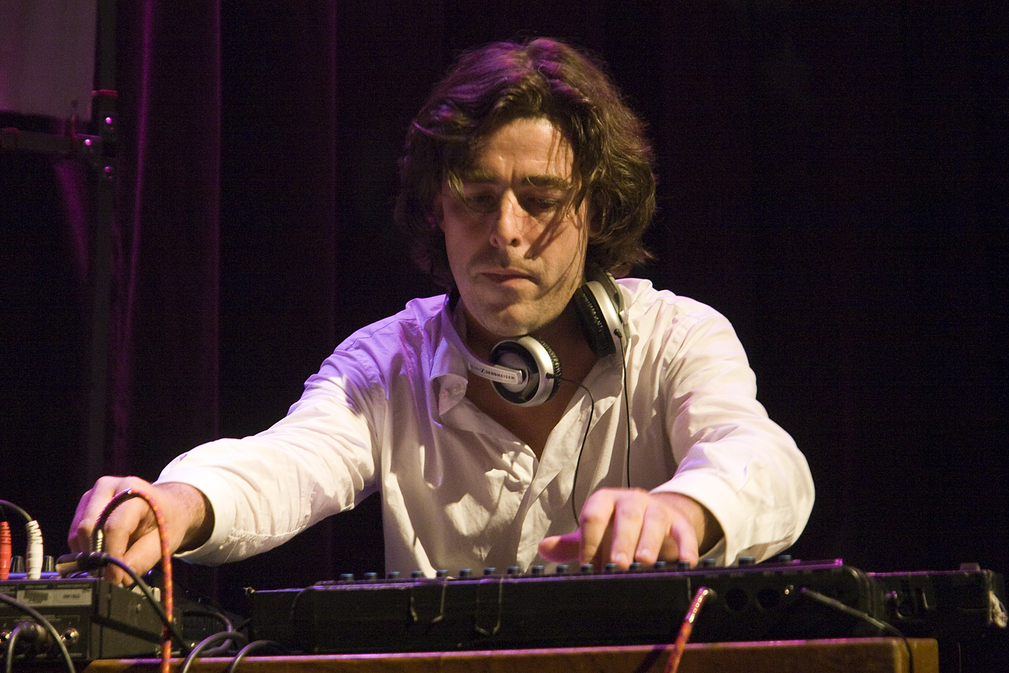 Benoît Delbecq, synthetizers + computers